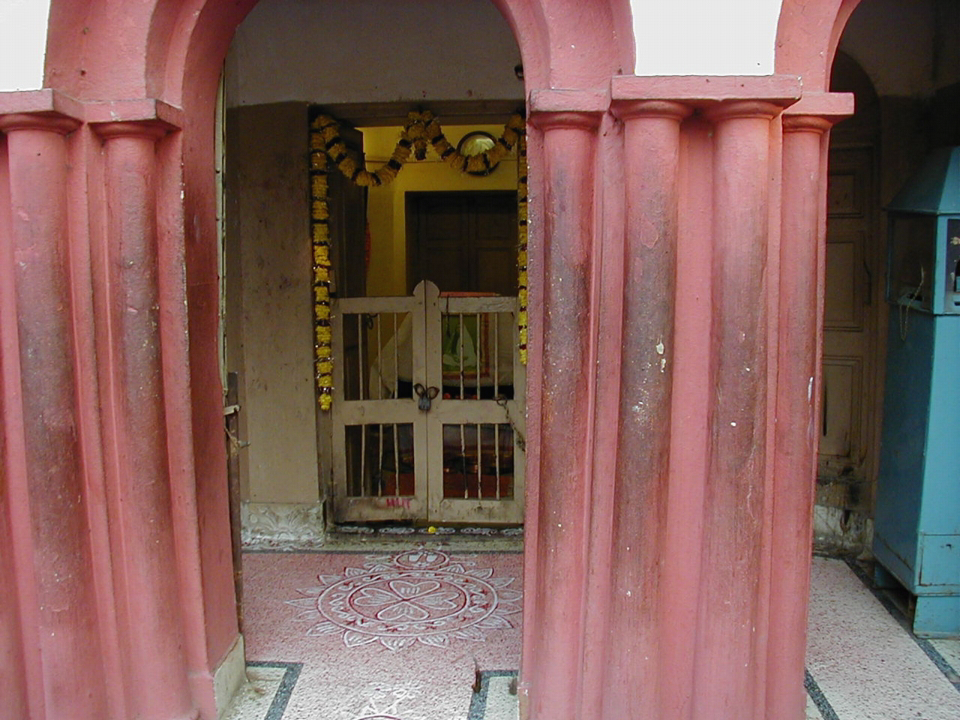 Sarada Devi's tiny room on the ground floor of the Nahabat, now a shrine, within Dakshineshwar Temple complex